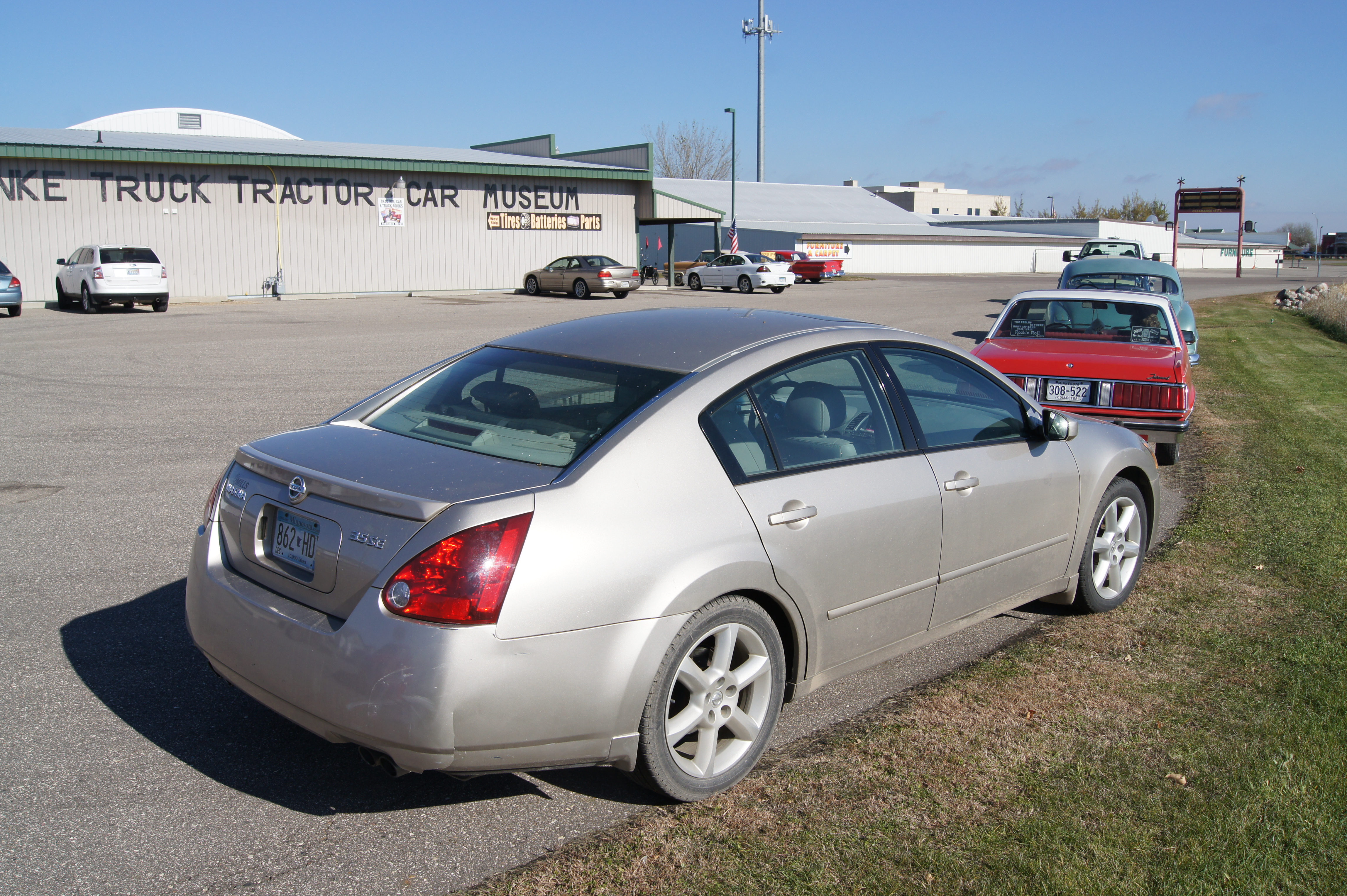 Car Buff's Breakfast November 2013 Kandi Entertainment Center Willmar Minnesota Click link below for more car pictures: The 2013 Car Buffs' Breakfast season went out with with a bang. Nice weather, visitors from the Wright County Car Club and a late start to the Deer Hunting Season helped push attendance over 80 when the club was expecting 60. Kandi Entertainment Center did an admirable job coping with the extra people. Attendees had an opportunity to see Mr. Theis's collection of Motorcycles and exciting Rat Rods. Then the Schwanke Tractor, Truck & Car Museum opened for viewing another great collection.